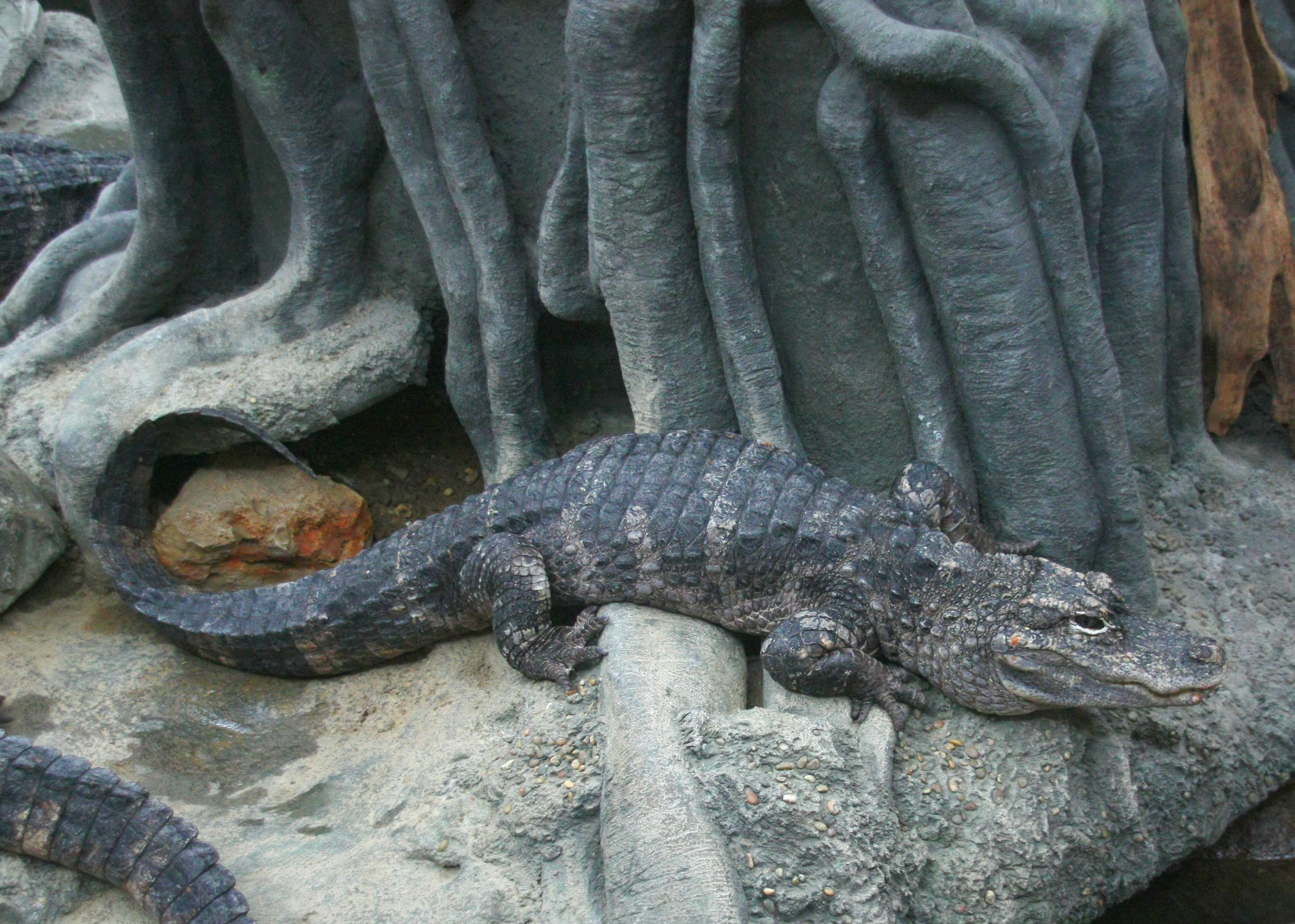 One of several Chinese Alligators at the Cincinnati Zoo and Botanical Garden.